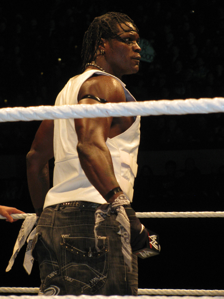 R-Truth @ Adelaide, South Australia 'RAW' house show on the 4th of July '11.